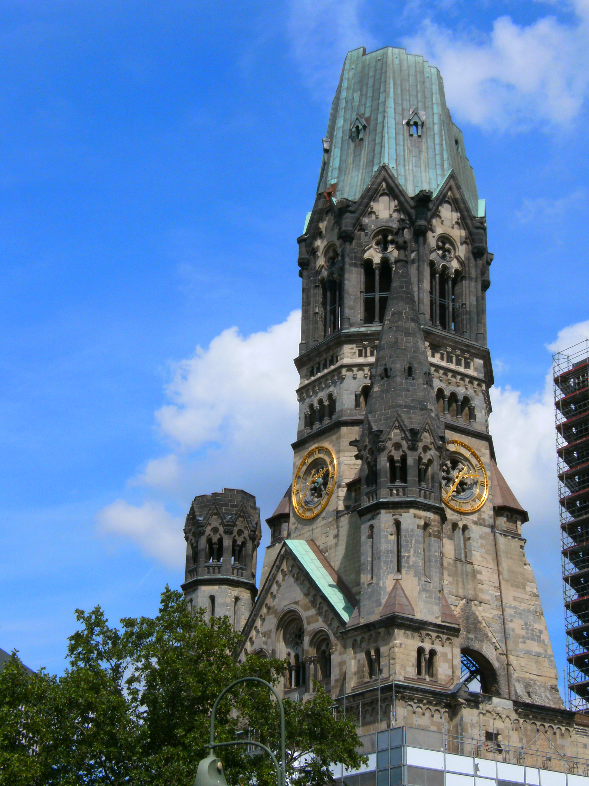 Old churchtower of Kaiser-Wilhelm-Gedächtniskirche in Berlin. The upper part of the old churchtower was already renovated in the year 2014.